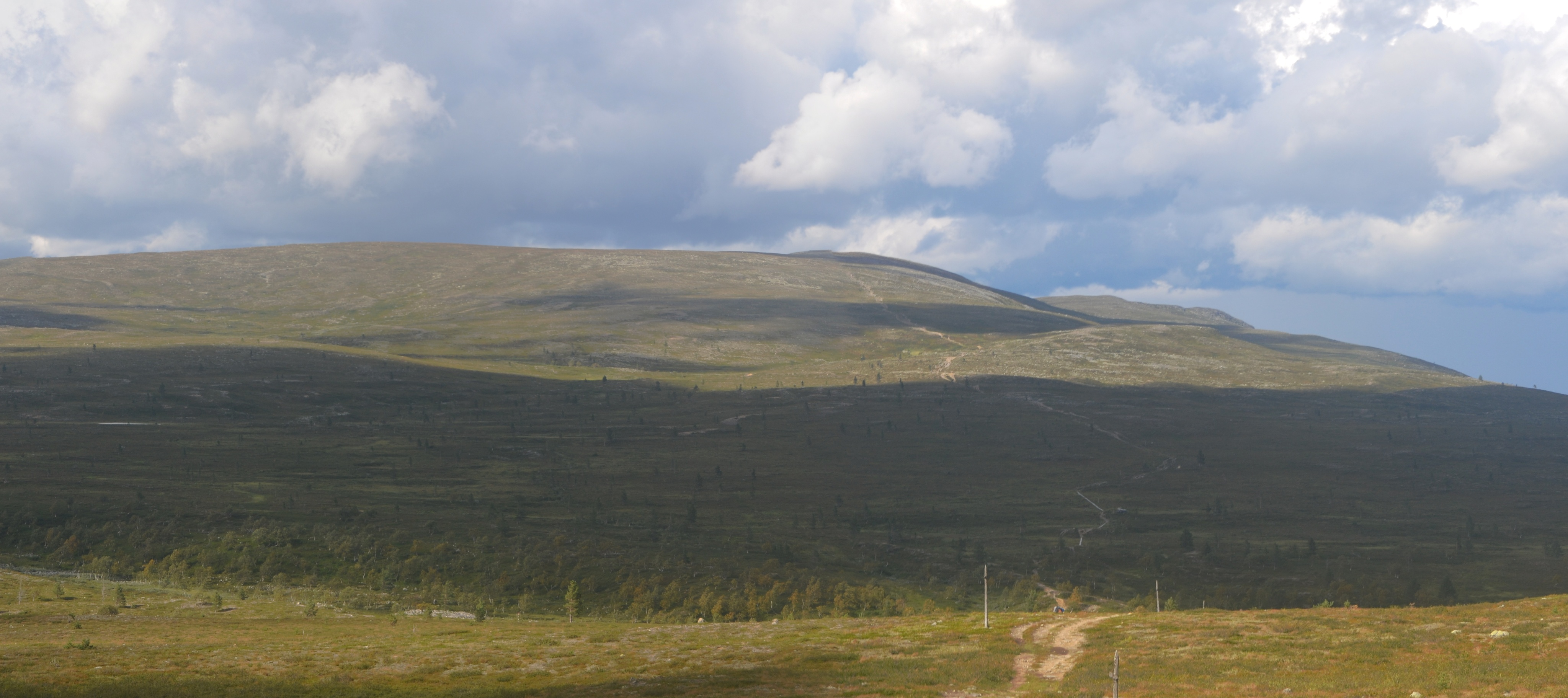 Pyhäkero of Ounastunturi in Enontekiö, Finland seen from Siosvaara